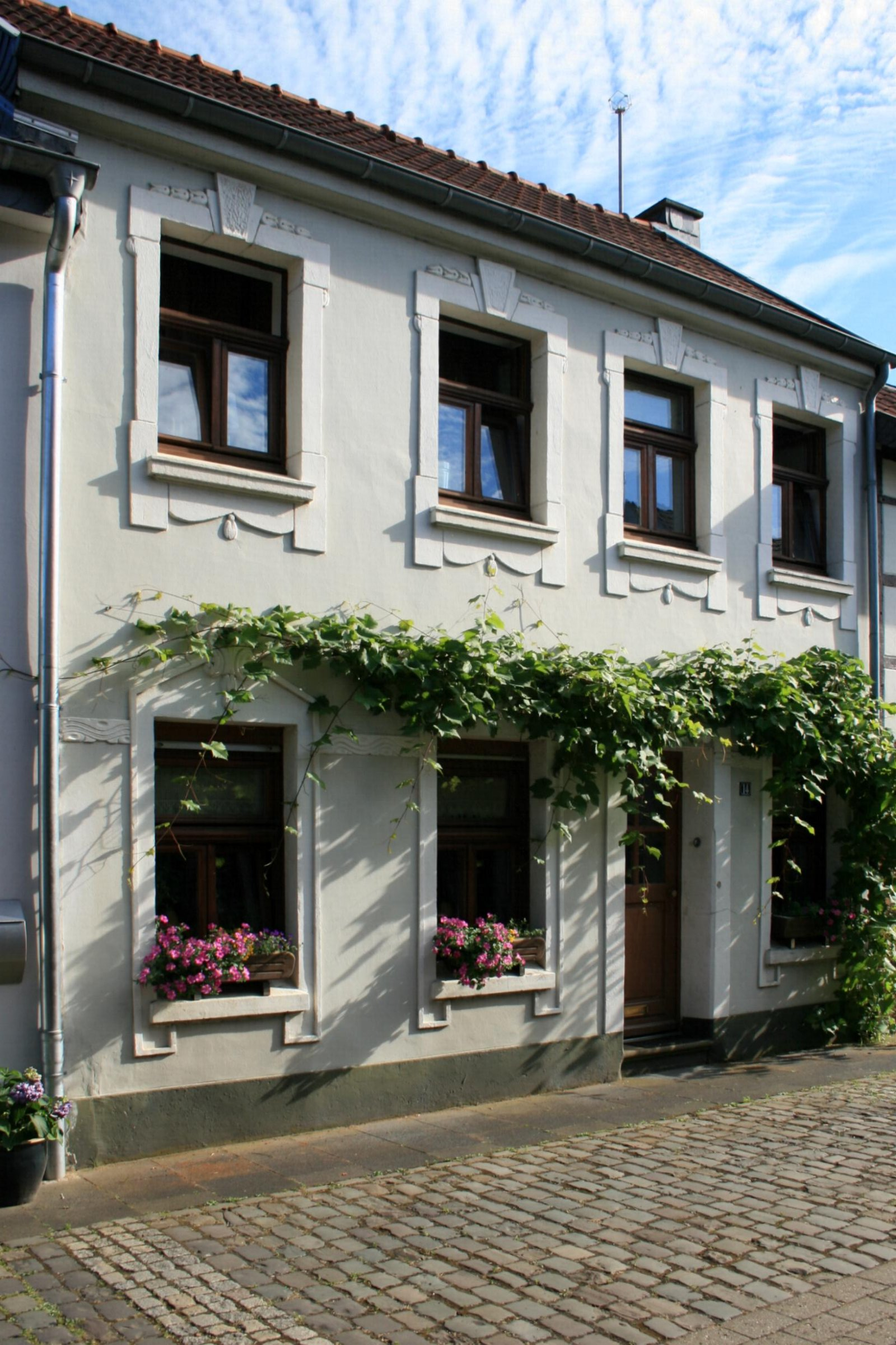 Cultural heritage monument No. St 016 in Mönchengladbach